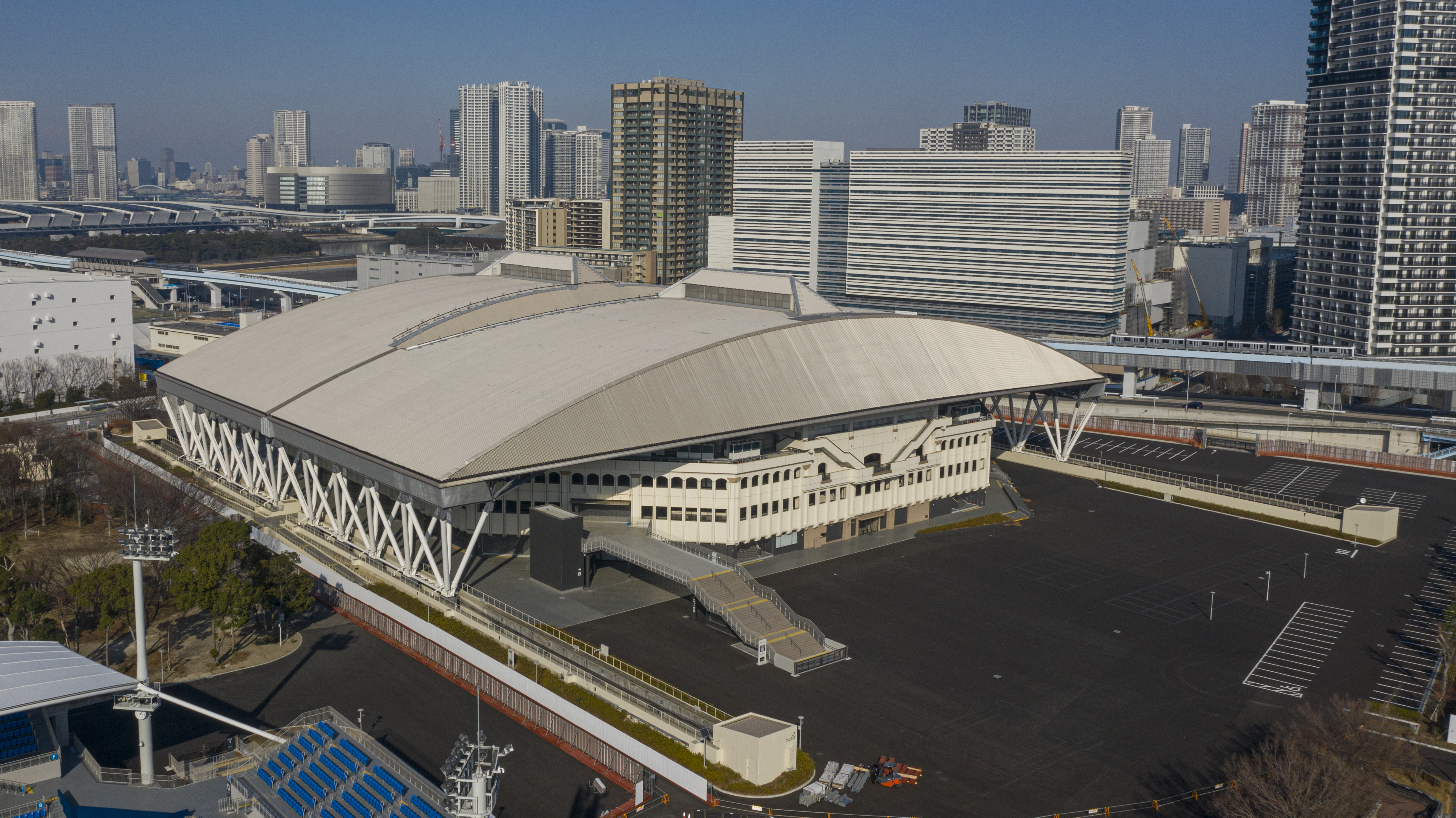 Aerial view of Ariake Tennis no Mori Kōen, Tokyo, Japan